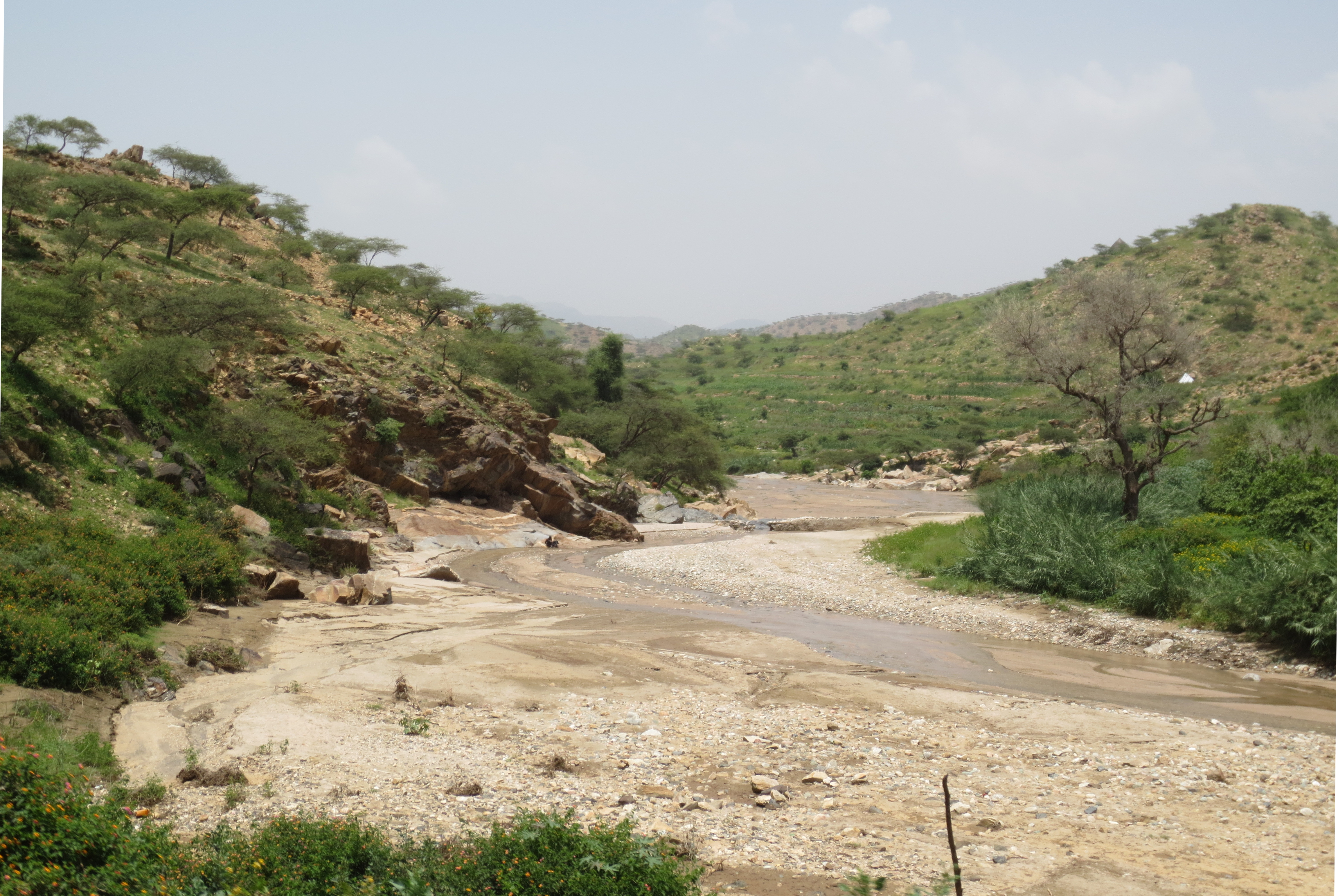 The Anseba river between Elabored and Keren in Eritrea.